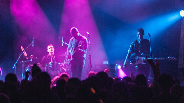 The Firearms playing live in Brno (2015)